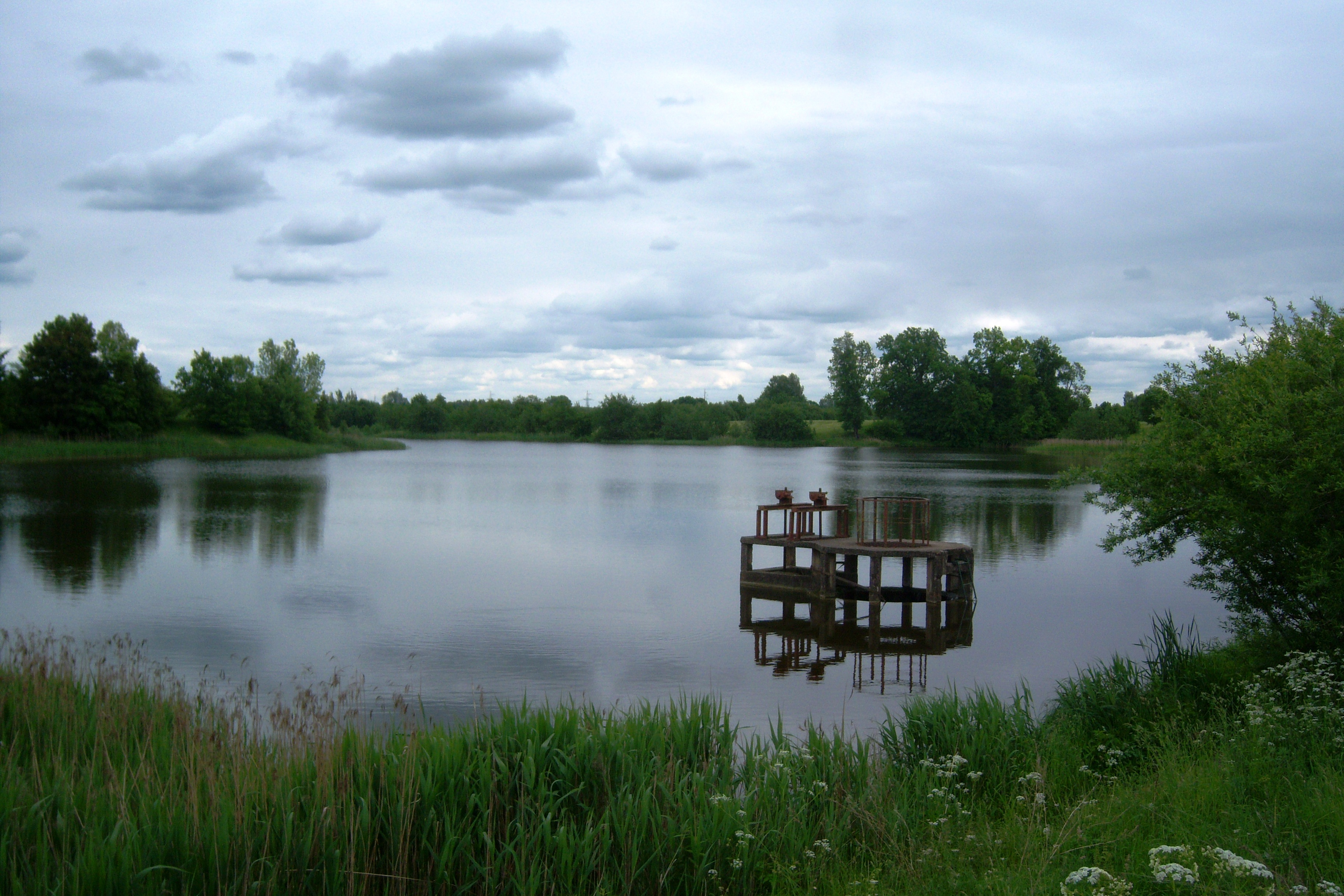 Pond in Muniškiai, Kaunas district. Lithuania